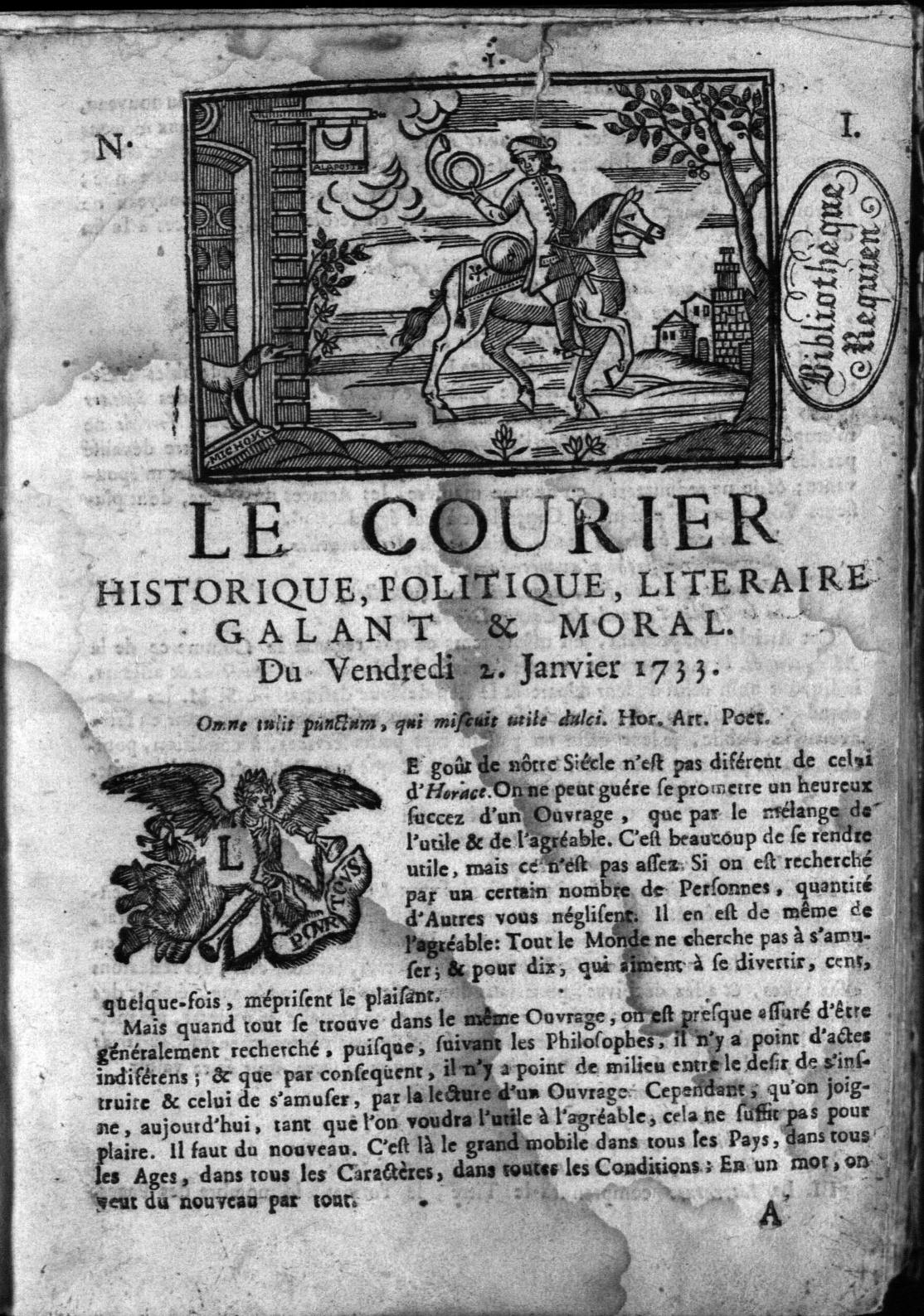 Courrier d’Avignon: first edition, first page